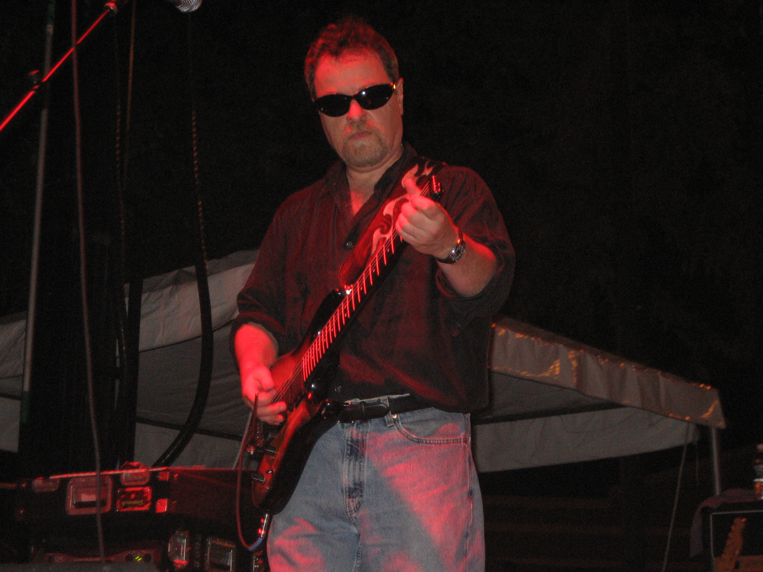 Eric Bloom performing "I love the Night" live